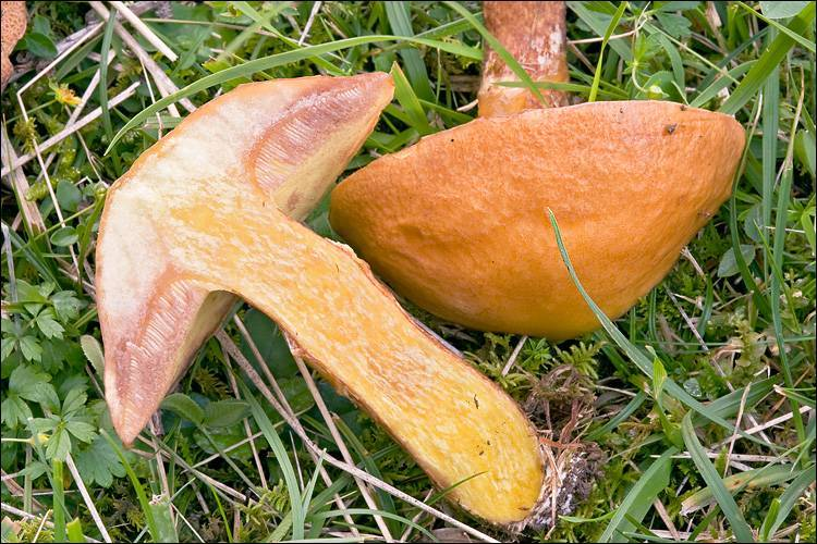 Suillus grevillei (Klotzsch) Singer Image location: Northeast slopes of Mount Kobariški Stol Ridge, East Julian Alps, Posočje, Slovenia Code: Bot_458/2010_DSC5146 Habitat: Grazed meadow, surrounded by mixed forest, northeast mountain slope, calcareous ground, under a Larix decidua, moderately sunny place, exposed to direct rain; average precipitations ~ 3.000 mm/year, average temperature 8-10 deg C, elevation 440 m (1.450 feet), alpine phytogeographical region. Substratum: soil. Place: Northeast slopes of Mt. Kobariški Stol ridge, Čirče place, south of village Žaga, East Julian Alps, Posočje, Slovenia EC Comments: Growing solitary, pileus diameter up to 12 cm (4.7 inches); viscous caps; SP brown. Nikon D700 /Nikkor Micro 105mm/f2.8 Recognized by sight Used references: (1) R.M. Daehncke, 1200 Pilze in Farbfotos, AT Verlag (2009), p 367. (2) M.Bon, Parey’s Buch der Pilze, Kosmos (2005), p 46. (3) A.Poler, Veselo po gobe (in Slovene), Mohorjeva družba Celovec (2002), p 194. (4) D.Arora, Mushrooms Demystified, Ten Speed Press, Berkeley (1986), p 497. Based on microscopic features: Spores smooth, dimensions: 8.7 (SD = 0.7) x 3.4 (SD = 0.3) micr., Q.= 2.58 (SD = 0.11), n = 30. Motic B2-211A, magnification 1.000 x, oil, in water. For more information about this, see the observation page at Mushroom Observer.